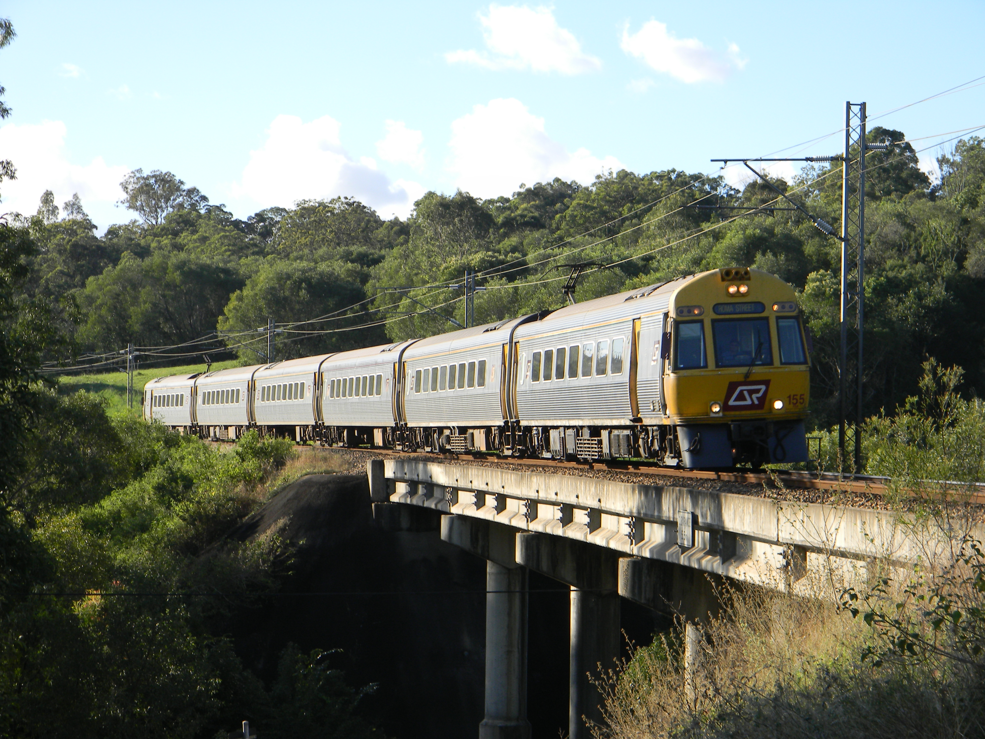 ICE 155 speeds southbound over the Gympie Connection Road bridge, 2 May 2010.